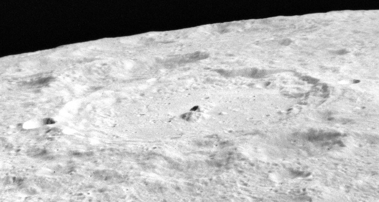 Oblique view of Sklodowska, on the far side of the moon. North is in lower right.